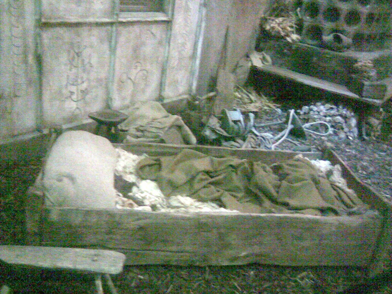 Original setting